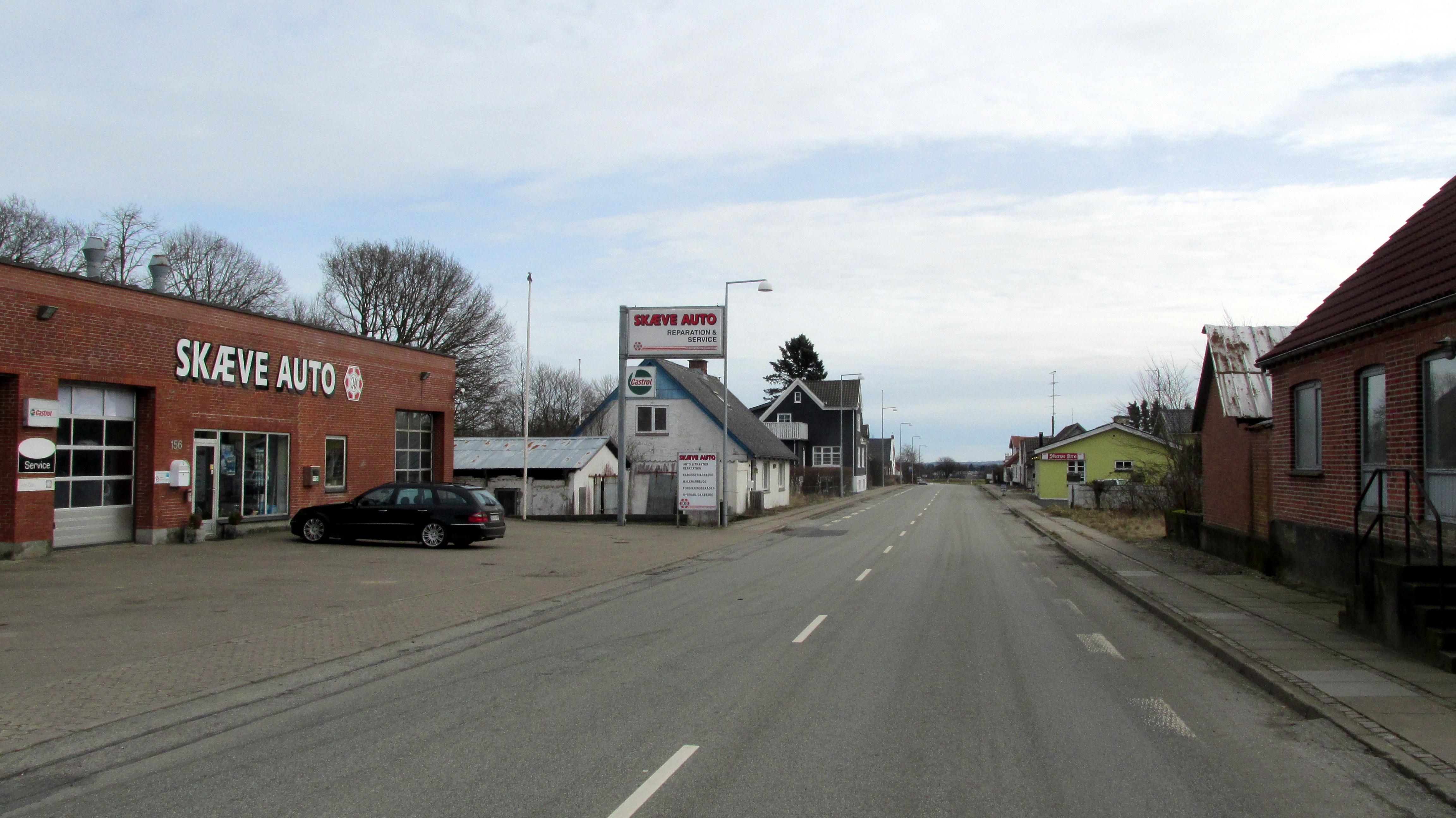 Brønden, a town in Denmark